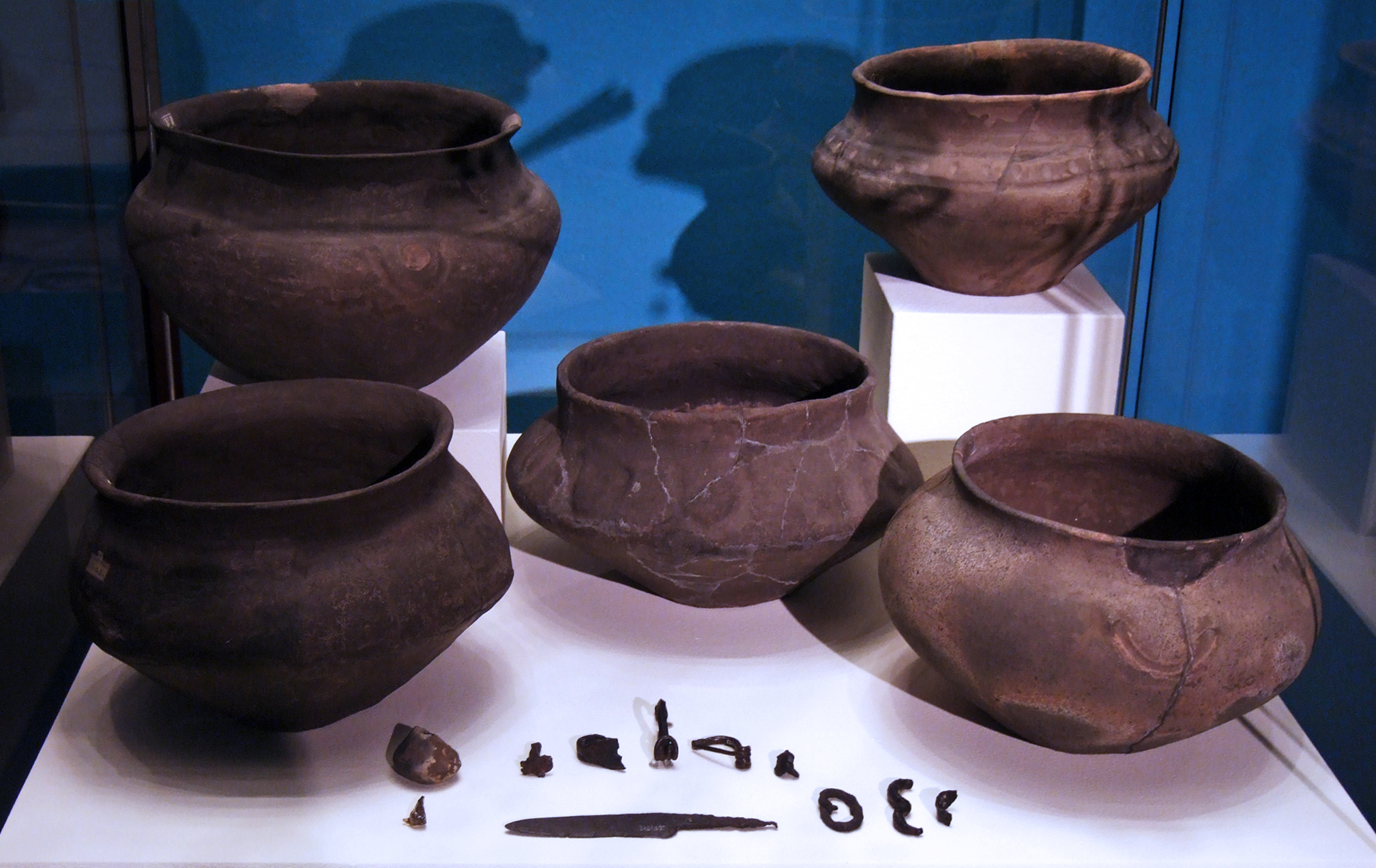 Lombard ceramic vessels and outfit components from the grave field von of Kostelec na Hané District of Prostějov, North Moravia, Czech Republic Up to now, 437 burials from this gravefield have been studied. The dead were burned on a funeral pyre and interred in urns. Numerous outfit remnants as well as the decoration of the ceramic vessels evidence parallels to Elbe Germanic finds from the Prignitz, Mecklenburg, and Holstein. Photographed while on display from 22 August 2008 to 11 January 2009 in the exhibition "Die Langobarden. Das Ende der Völkerwanderung" at the Rheinisches LandesMuseum Bonn. On loan from the Muzeum Prostějovska v Prostějově příspěvková organizace, Prostějov; Vlastivědné Muzeum, Olomouc.